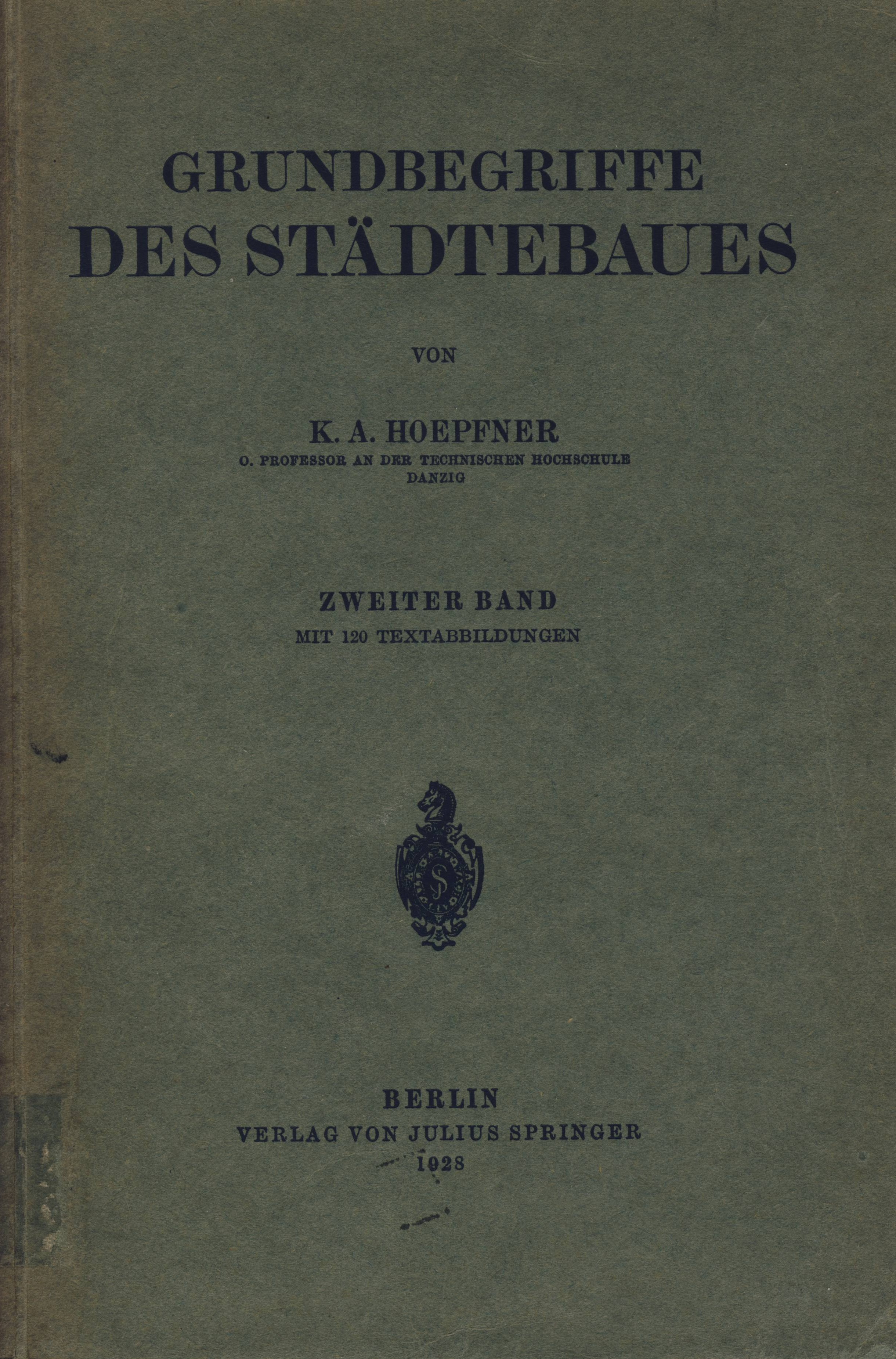 Cover: Karl August Hoepfner: Grundbegriffe des Städtebaues, Zweiter Band. Berlin 1928